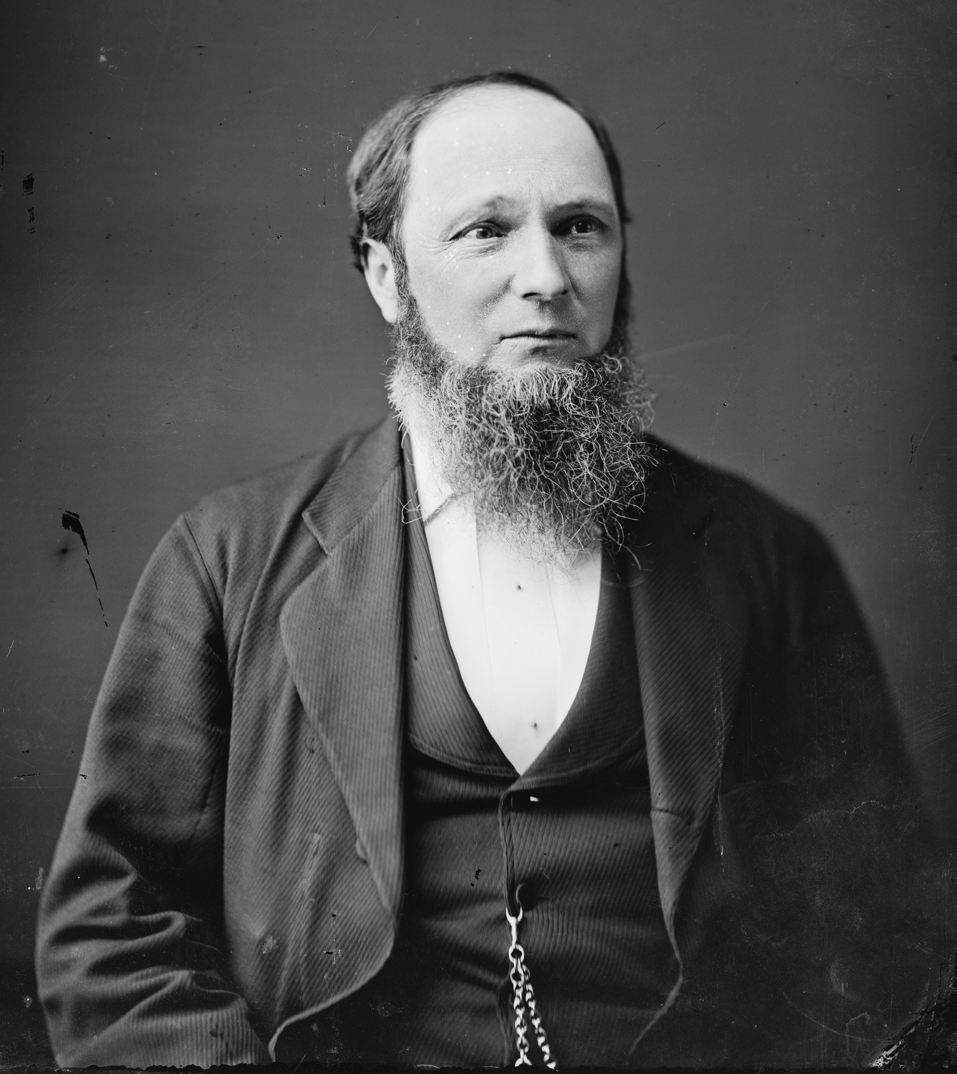 James William Marshall, former Postmaster-General of the United States.